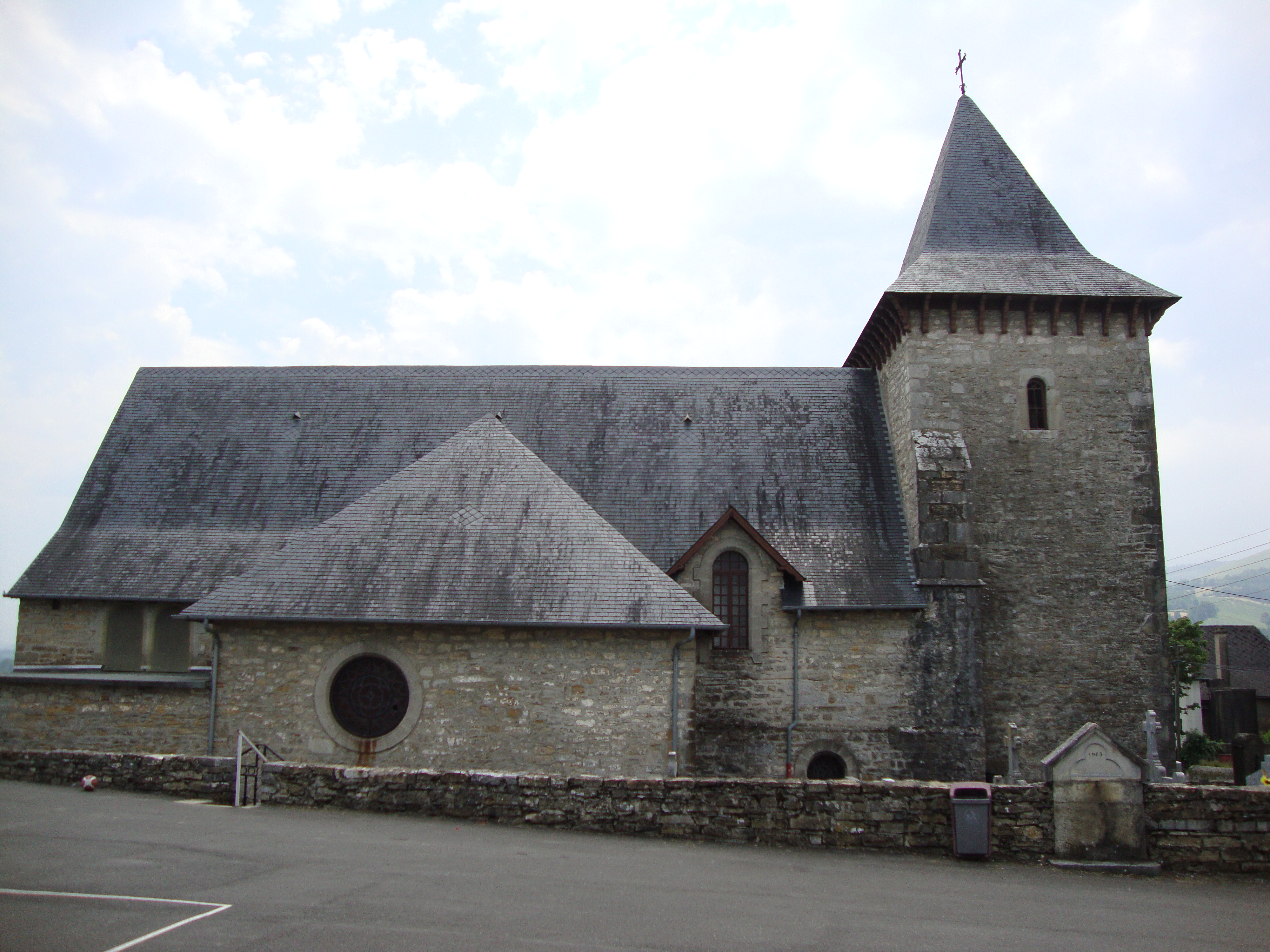 Musculdy (Pyr-Atl, Fr) church